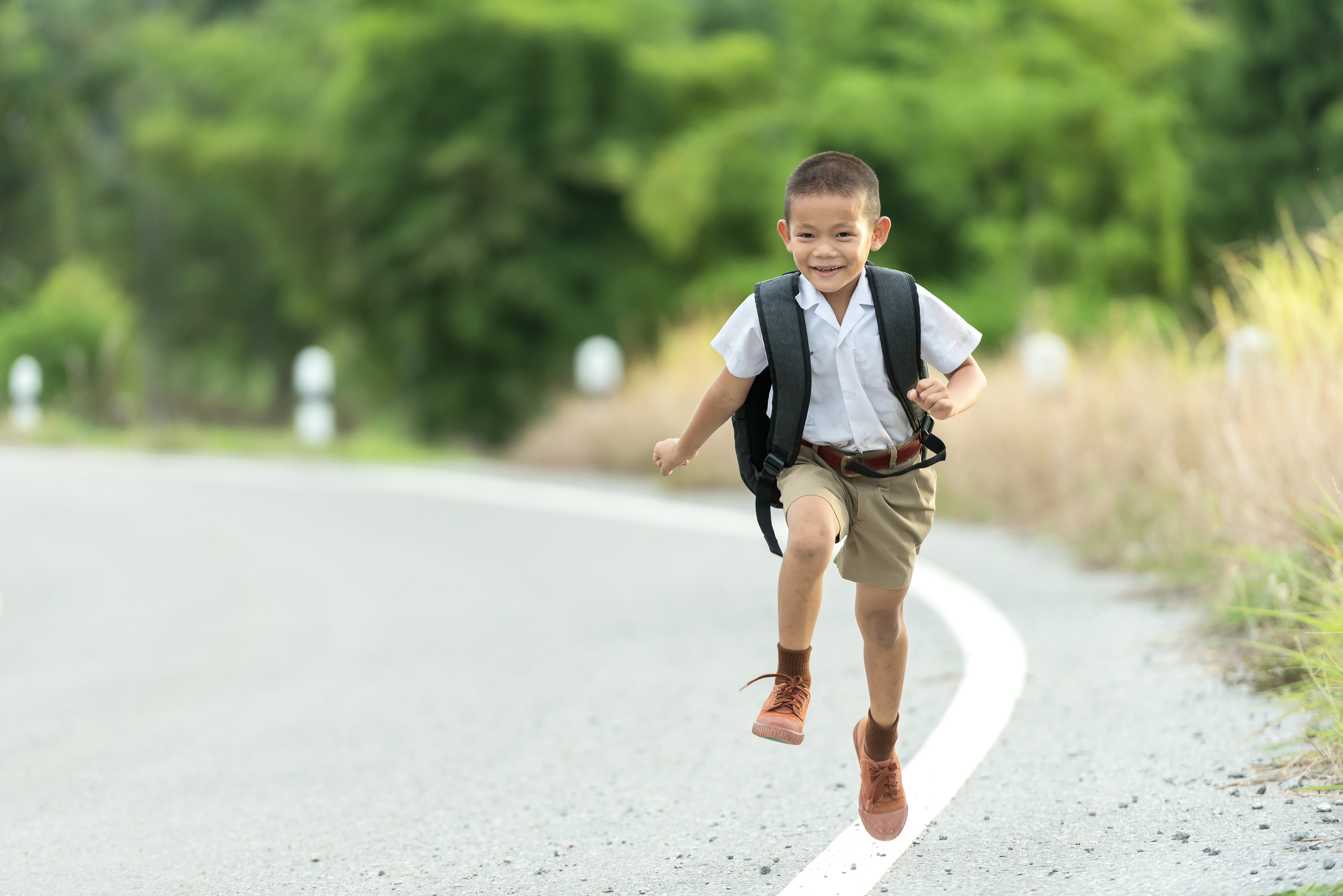 Running boy in joyous mood